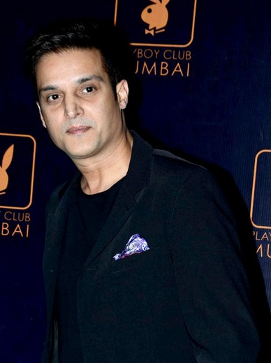 Jimmy Shergill snapped on (6 November 2016) at Launch of ‘Playboy Club’ in Mumbai.